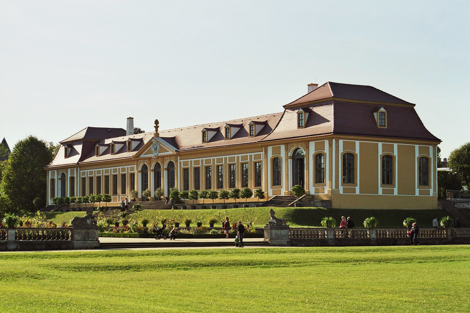 This image shows the upper orangery in the Großsedlitz baroque garden in Heidenau near Dresden in Saxony, Germany.